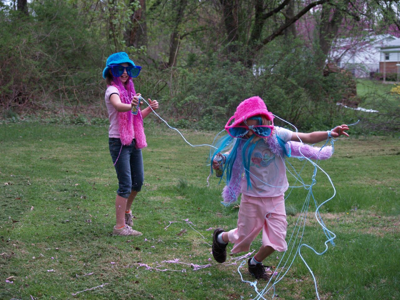 Silly string in action